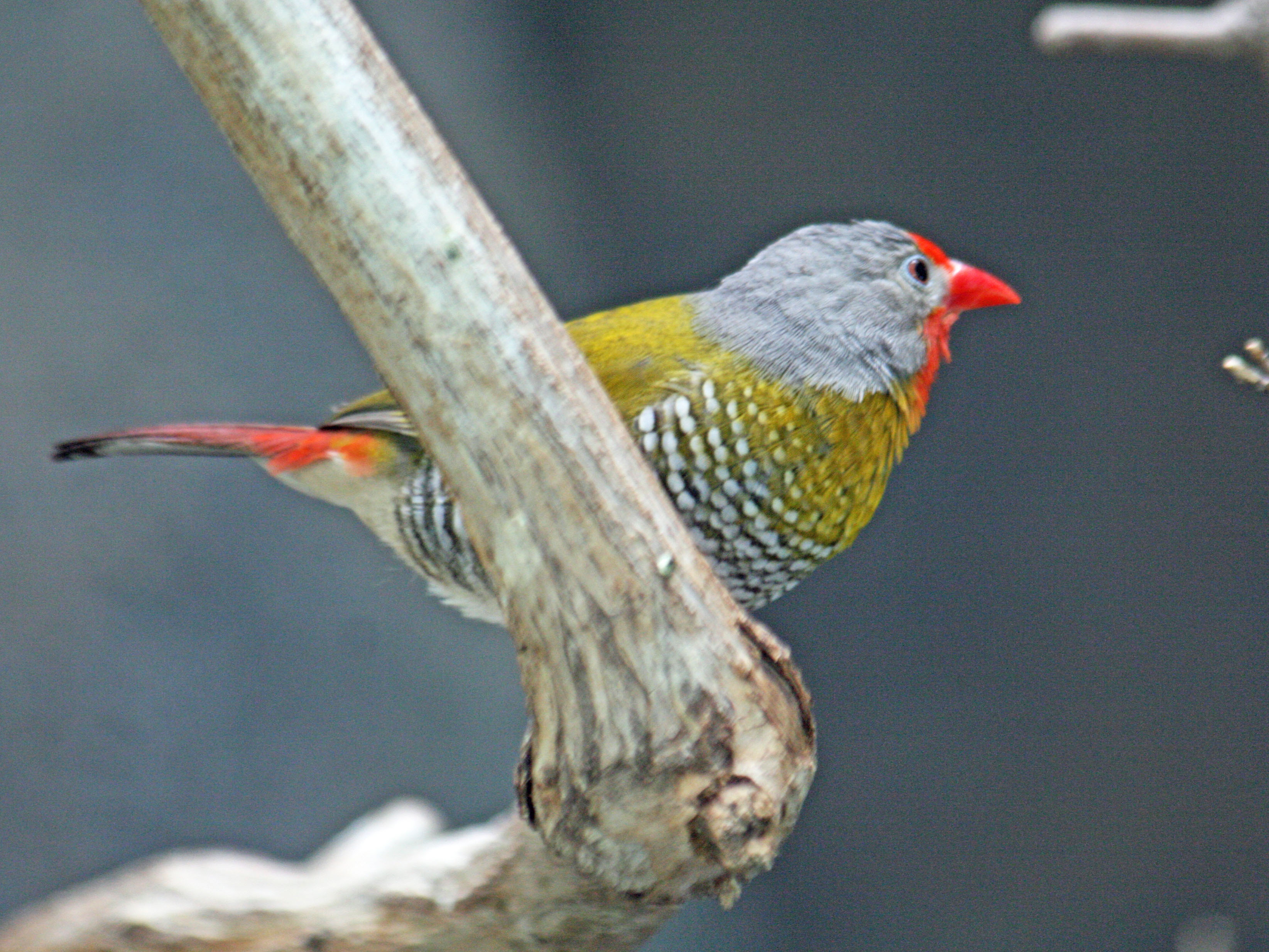 Green-winged Pytilia (Pytilia melba) - San Diego Zoo